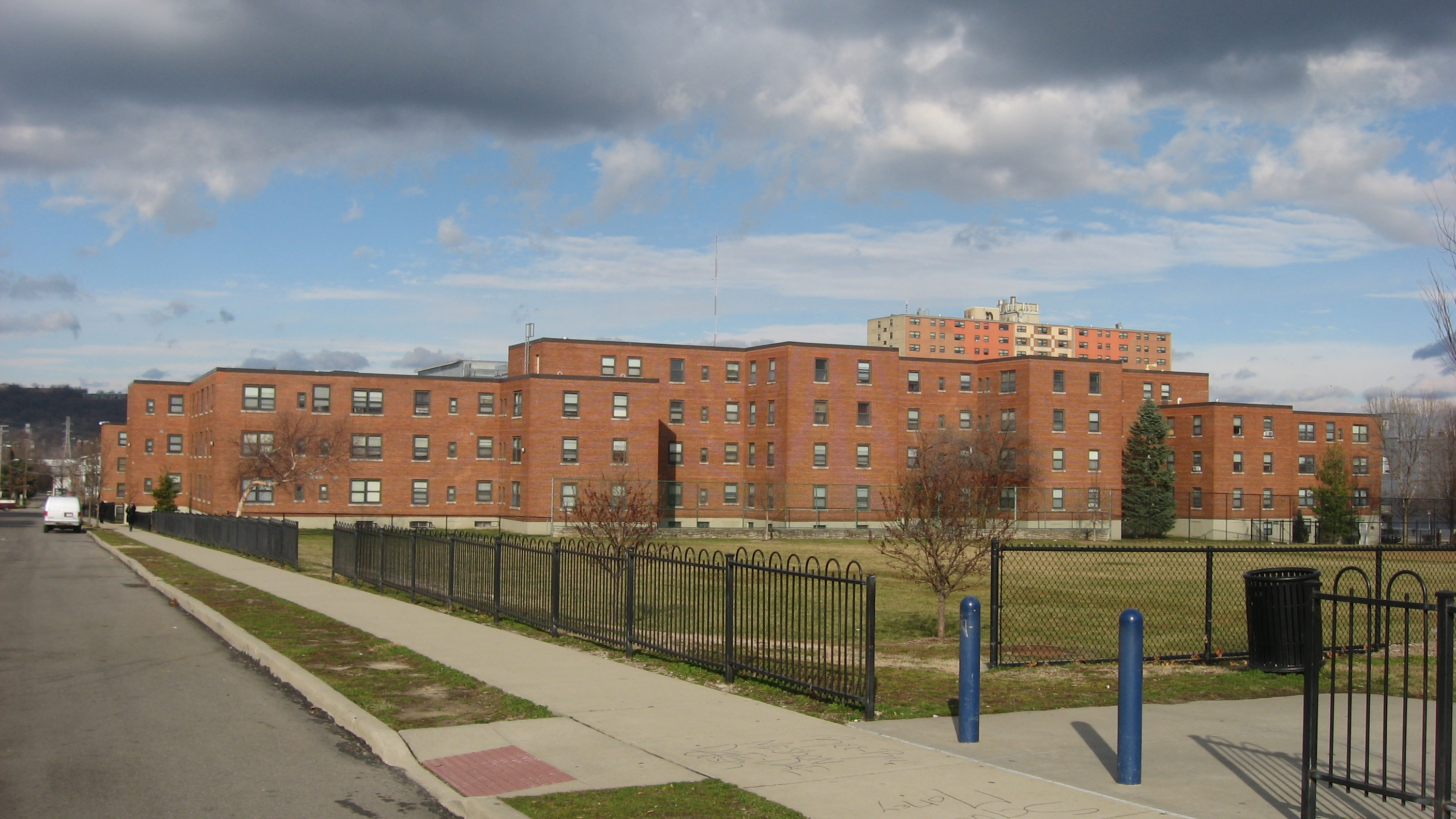 One of the remaining three buildings in the Laurel Homes Historic District, located on the northern side of Wade Street in the West End of Cincinnati, Ohio, United States. Built in 1933 and mostly demolished since then, the district is listed on the National Register of Historic Places.